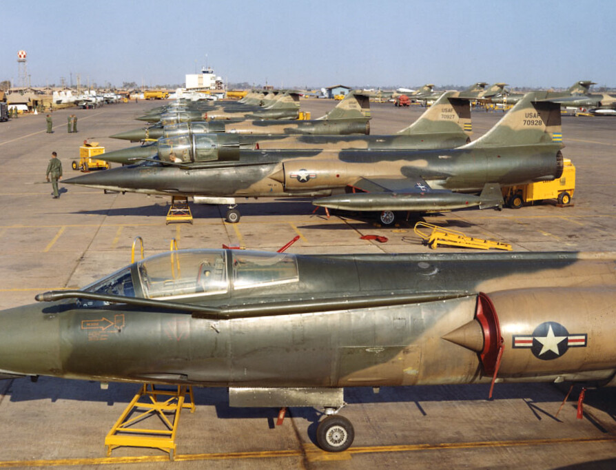 U.S. Air Force Lockheed F-104C Starfighters from the 435th Tactical Fighter Squadron, 479th Tactical Fighter Wing, at Udorn Royal Thai Air Force Base (today Udon Thani), in 1965.